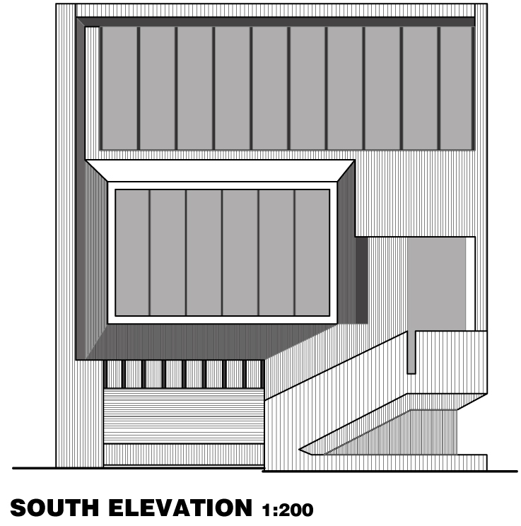 elevation of Graeme Gunn's Plumbers & Gasfitters Employees' Union Building